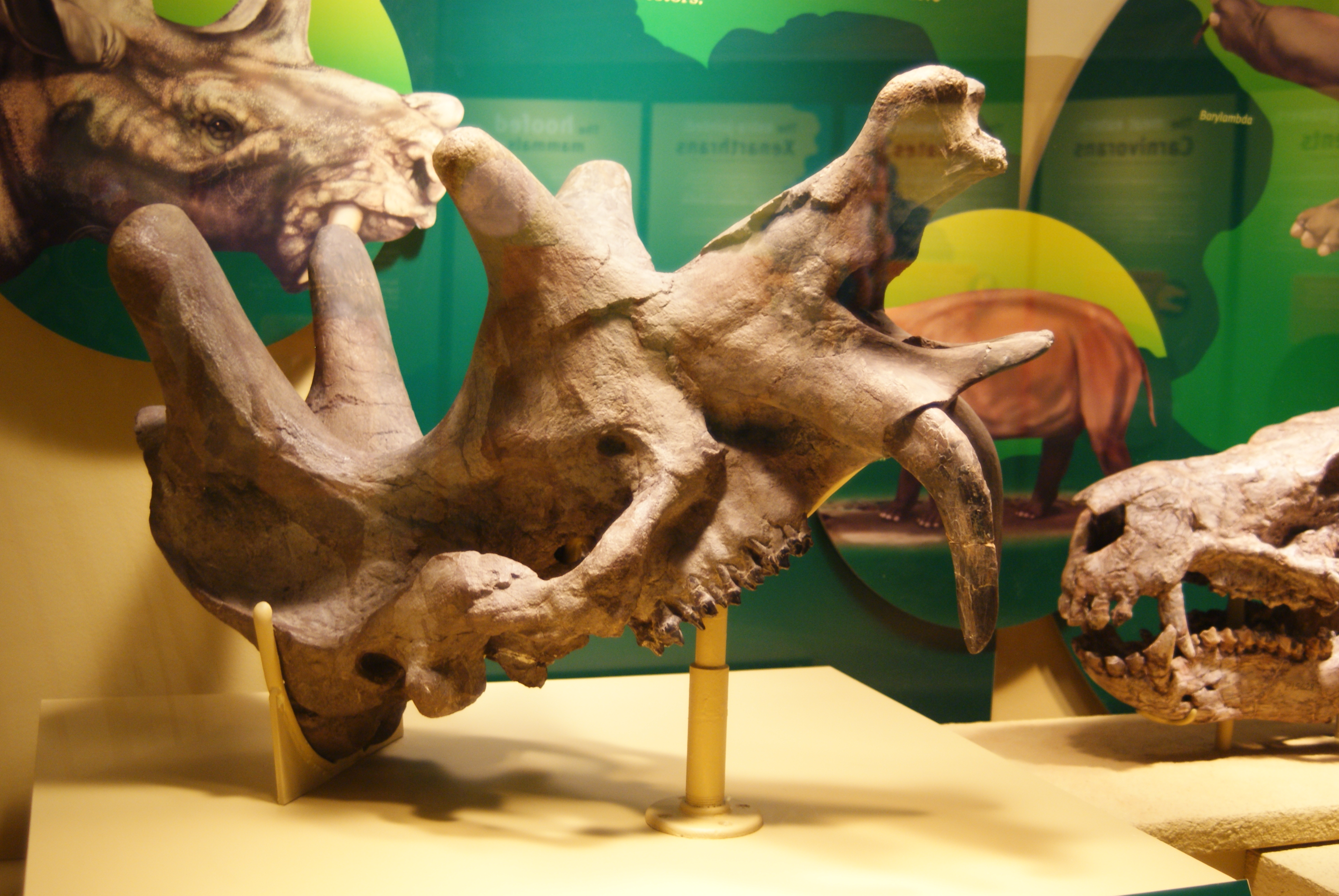 Eobasileus cornutus skull at the Evolving Planet Exhibit at the Field Museum, Chicago, IL.